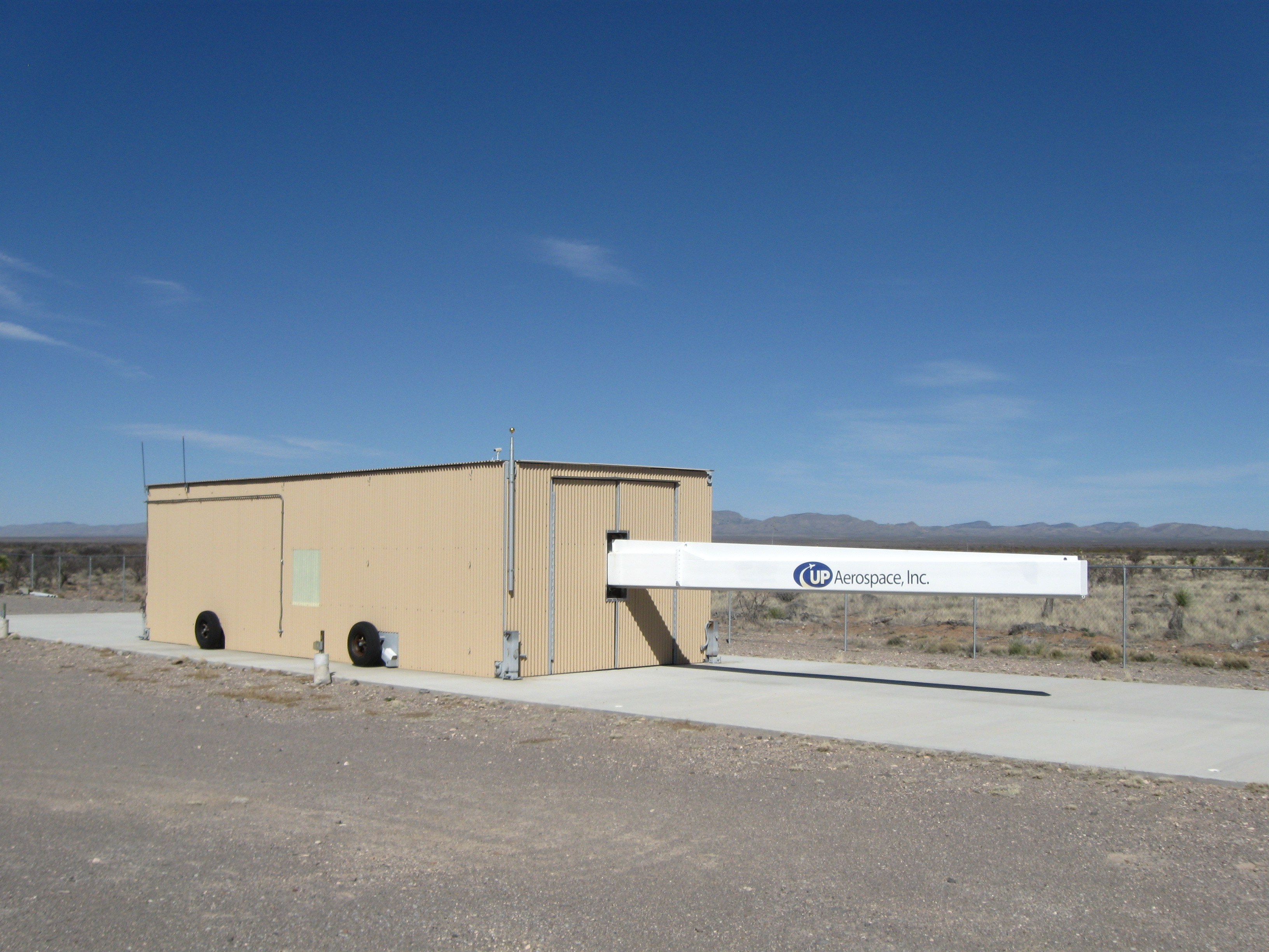 The vertical launch area of UP Aerospace, Inc. at Spaceport America. The building is the Vehicle Assembly Building and the white object sticking out of the VAB at the right is part of the tower and launch rail used to support the rocket under test. When launching, the VAB rolls back to expose the whole tower.